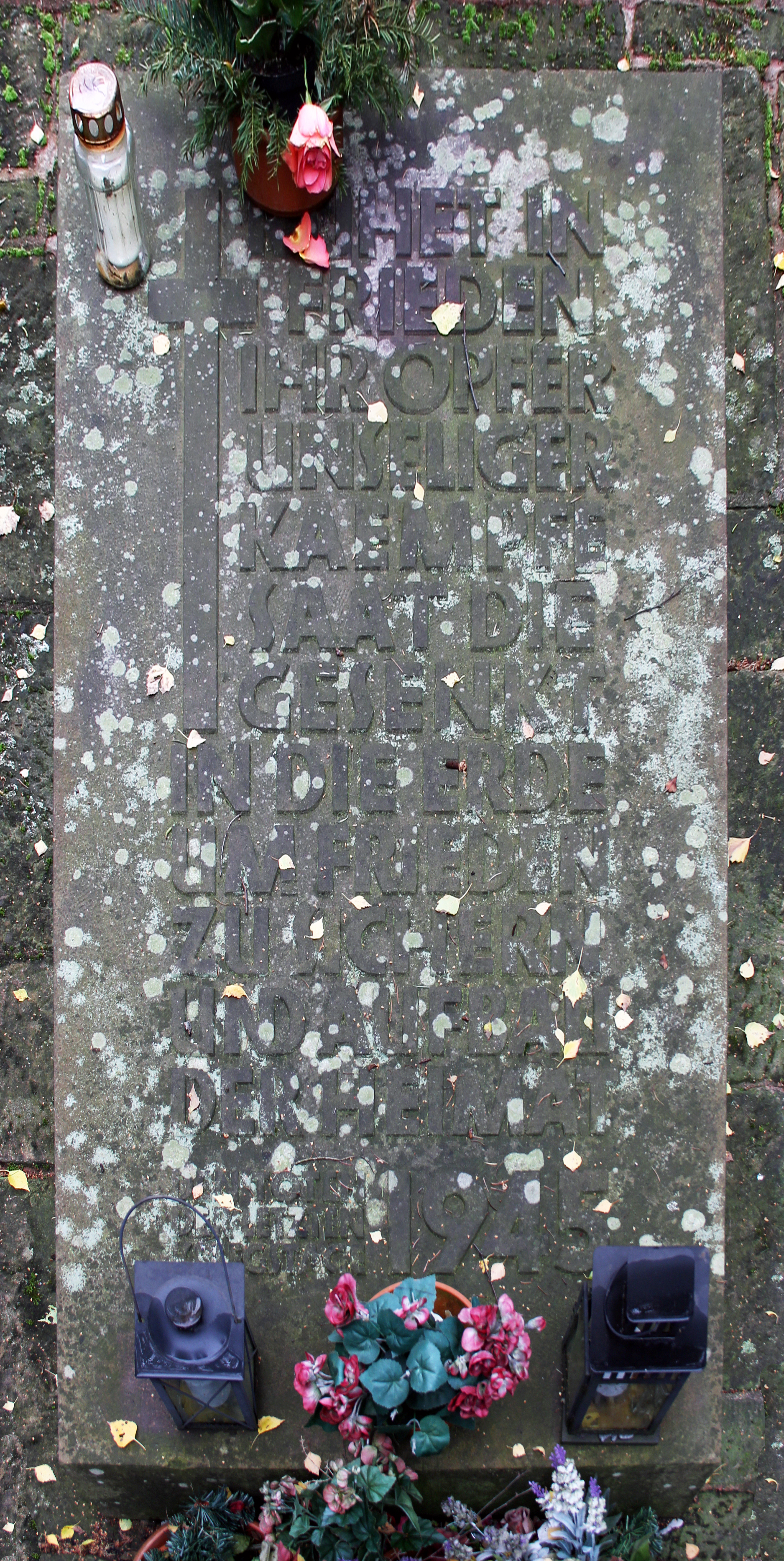 Memorial stone, Kriegsopfer, Reißeckstraße 14, Heidefriedhof, Berlin-Mariendorf, Germany